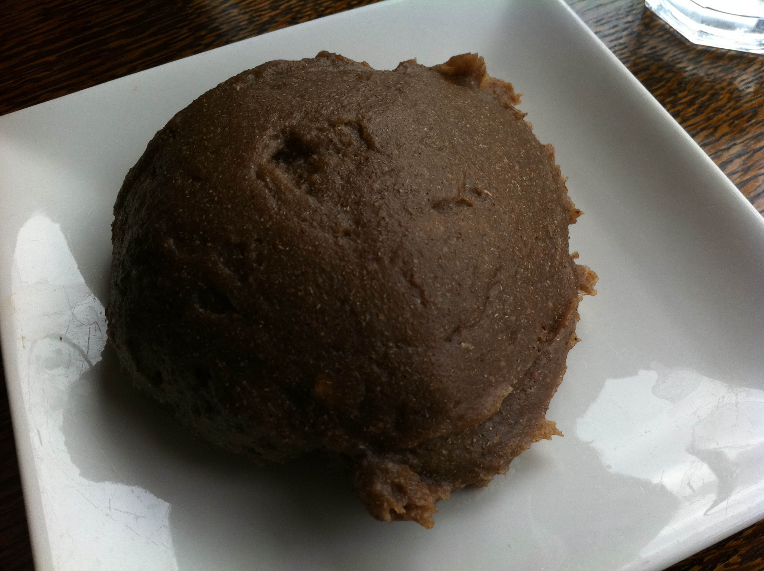 Amala is a Nigerian foodstuff made from Yam. Restaurant was Moyo Ma, Walworth, London